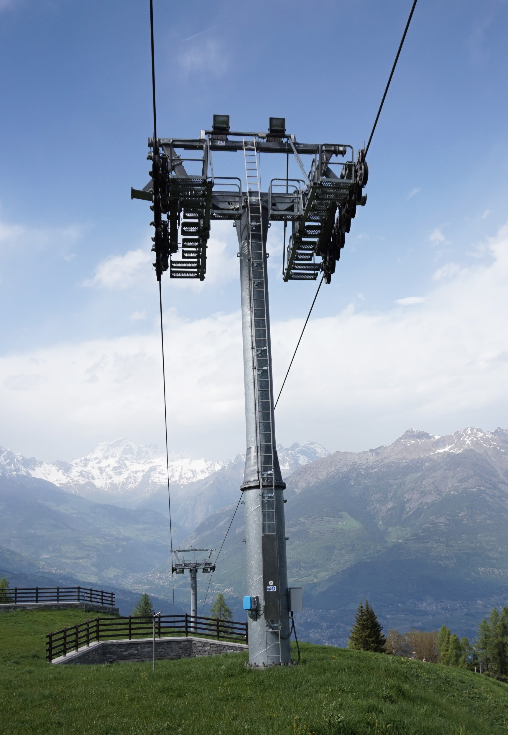 Cable car mast.This photograph was taken with a Sony ILCE-5000